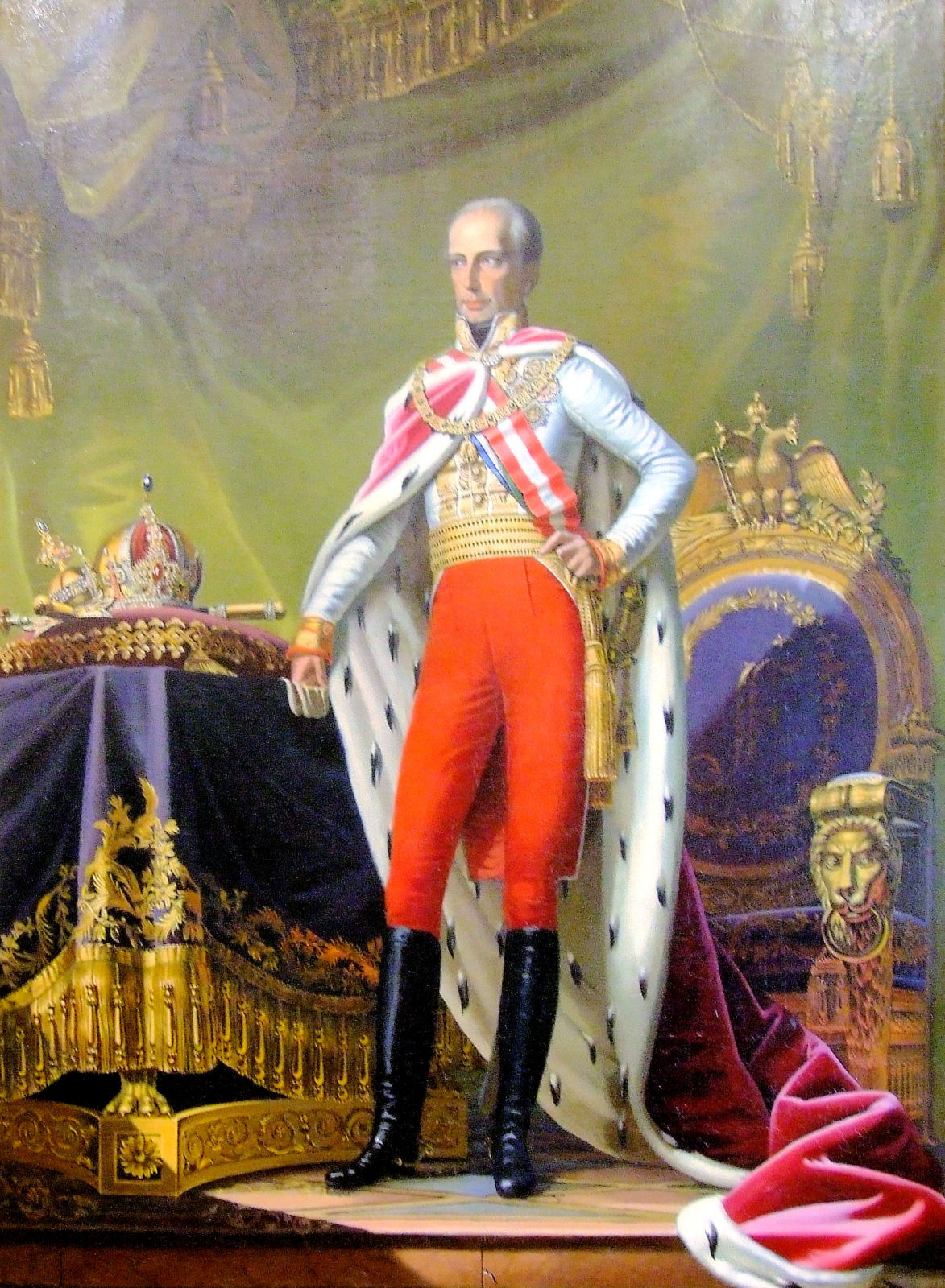 Francis I, the first emperor of Austria.